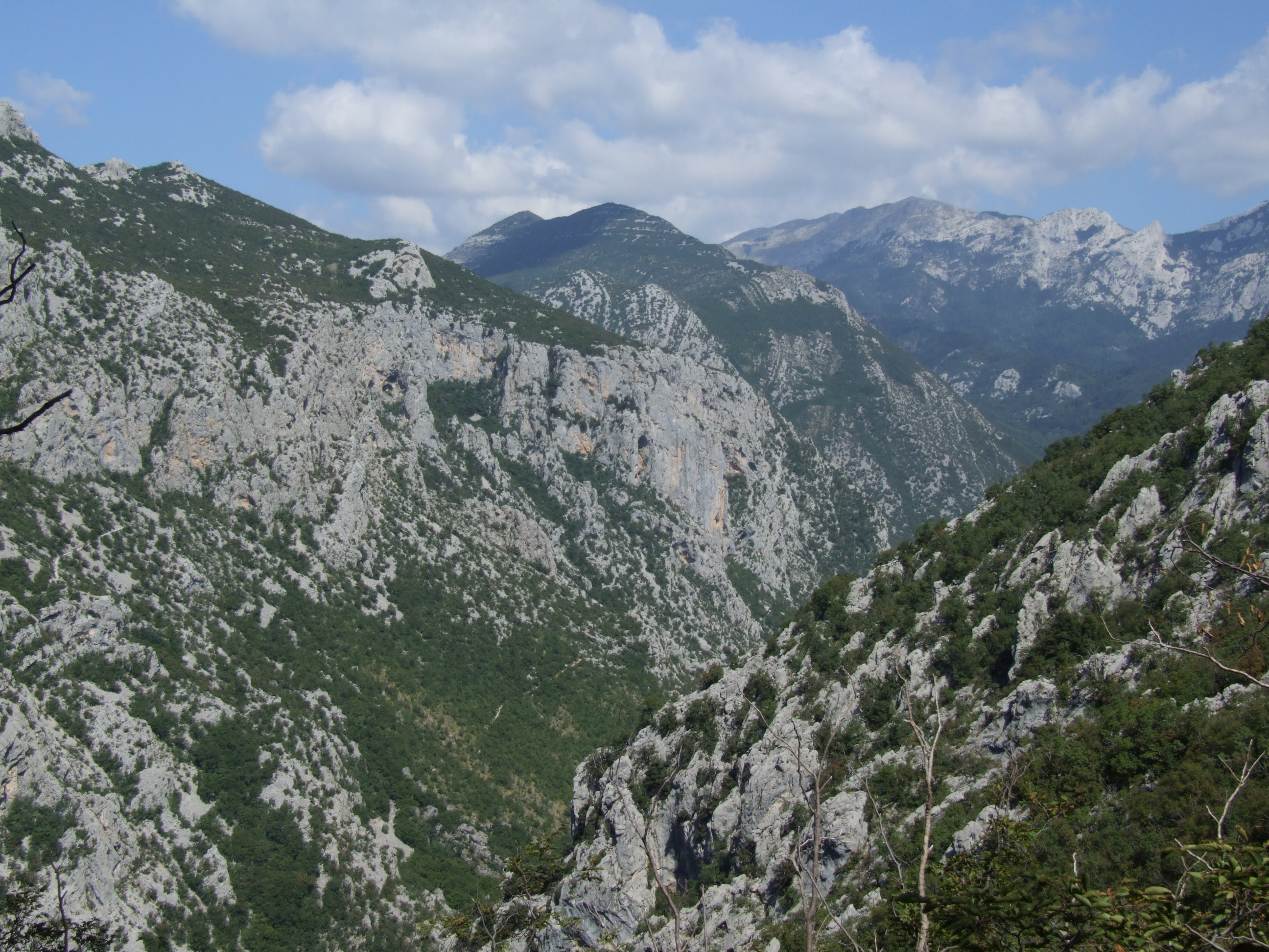 National Park Paklenica - canyon Velika Paklenica